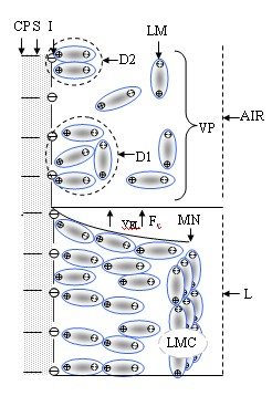 Molecular power 20. Condensation mechanism of the liquid flow in capillary